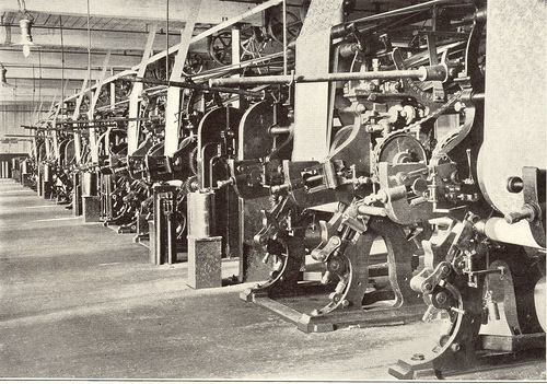 Printing Room, American Printing Company, Fall River, Massachusetts